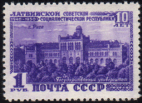 Postage stamp issued by the Soviet Union 1950 depicting view of Riga, Latvia.